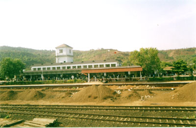 Chiplun railway station.